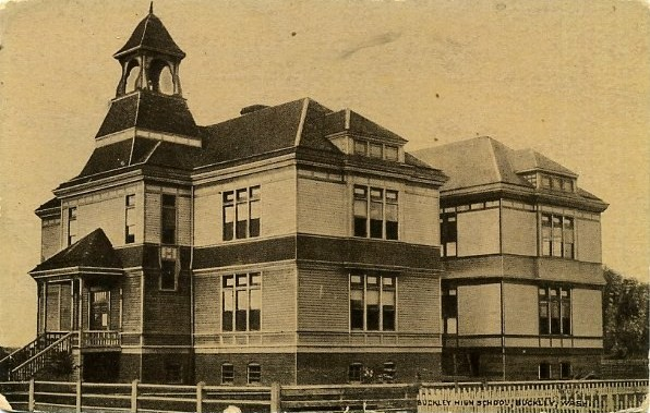 Postcard: Buckley High School in Buckley, Washington; store Web page states: "Description: 1912 postmark. / Size: 3-1/2 x 5-1/2""